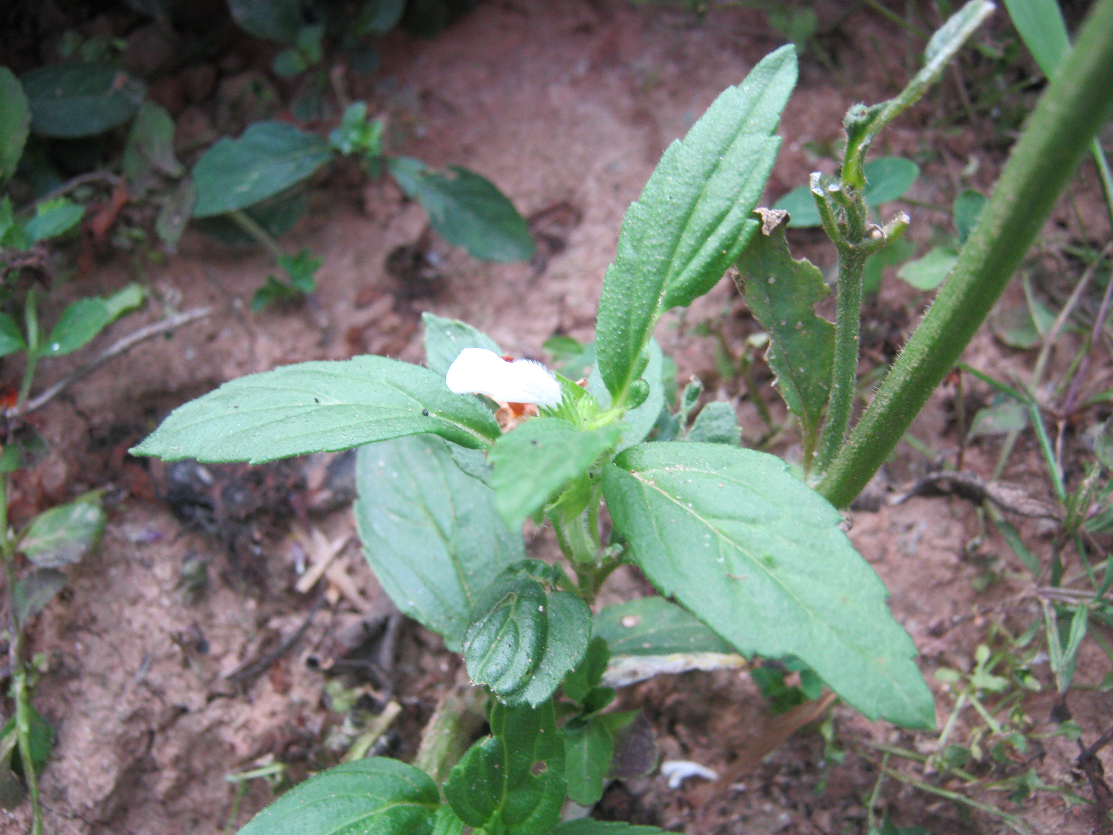 A medicinal plant found in Nepal.